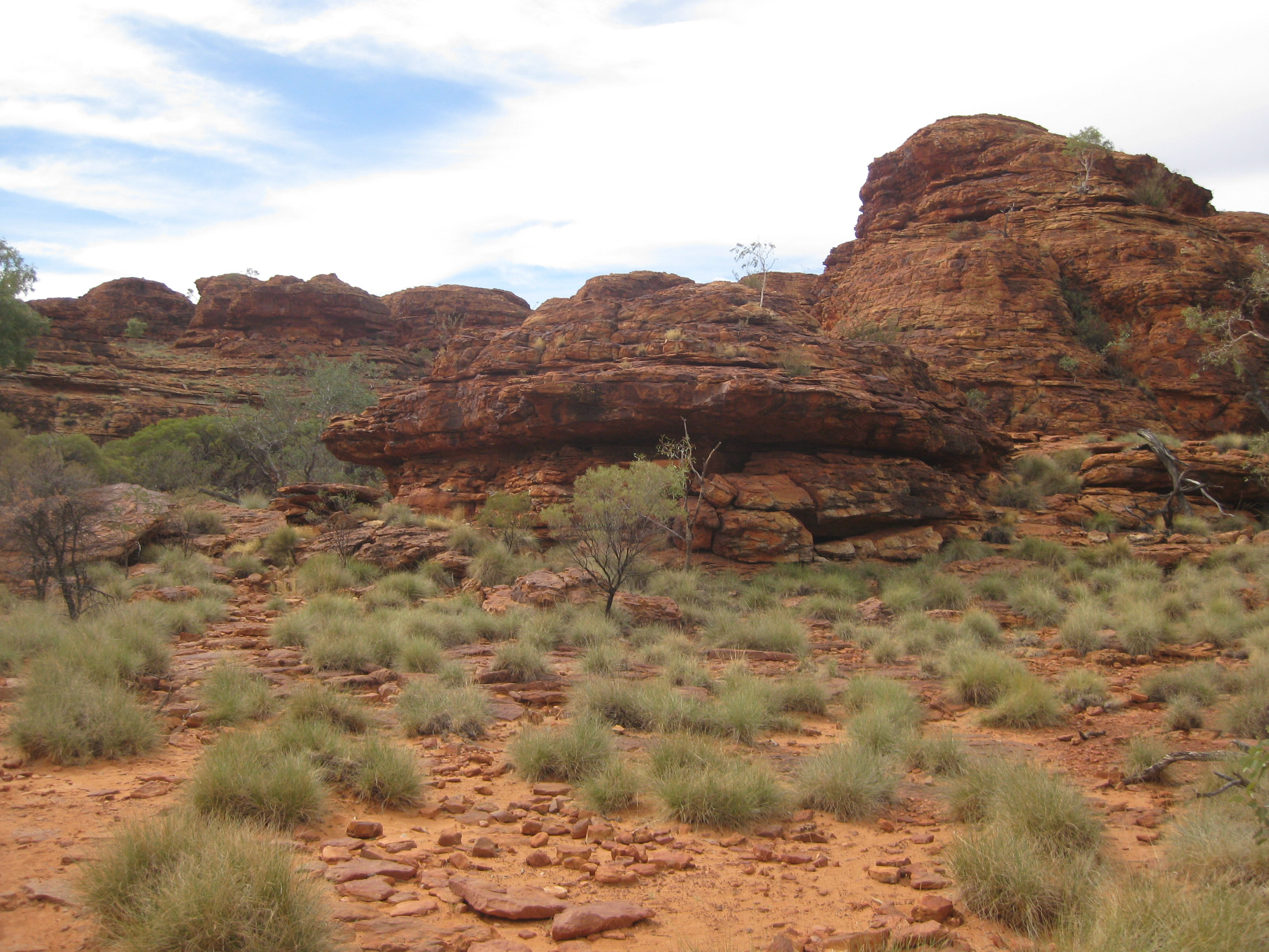 King's Canyon, Northern Territory. The colours of the sand and the foliage were really striking.